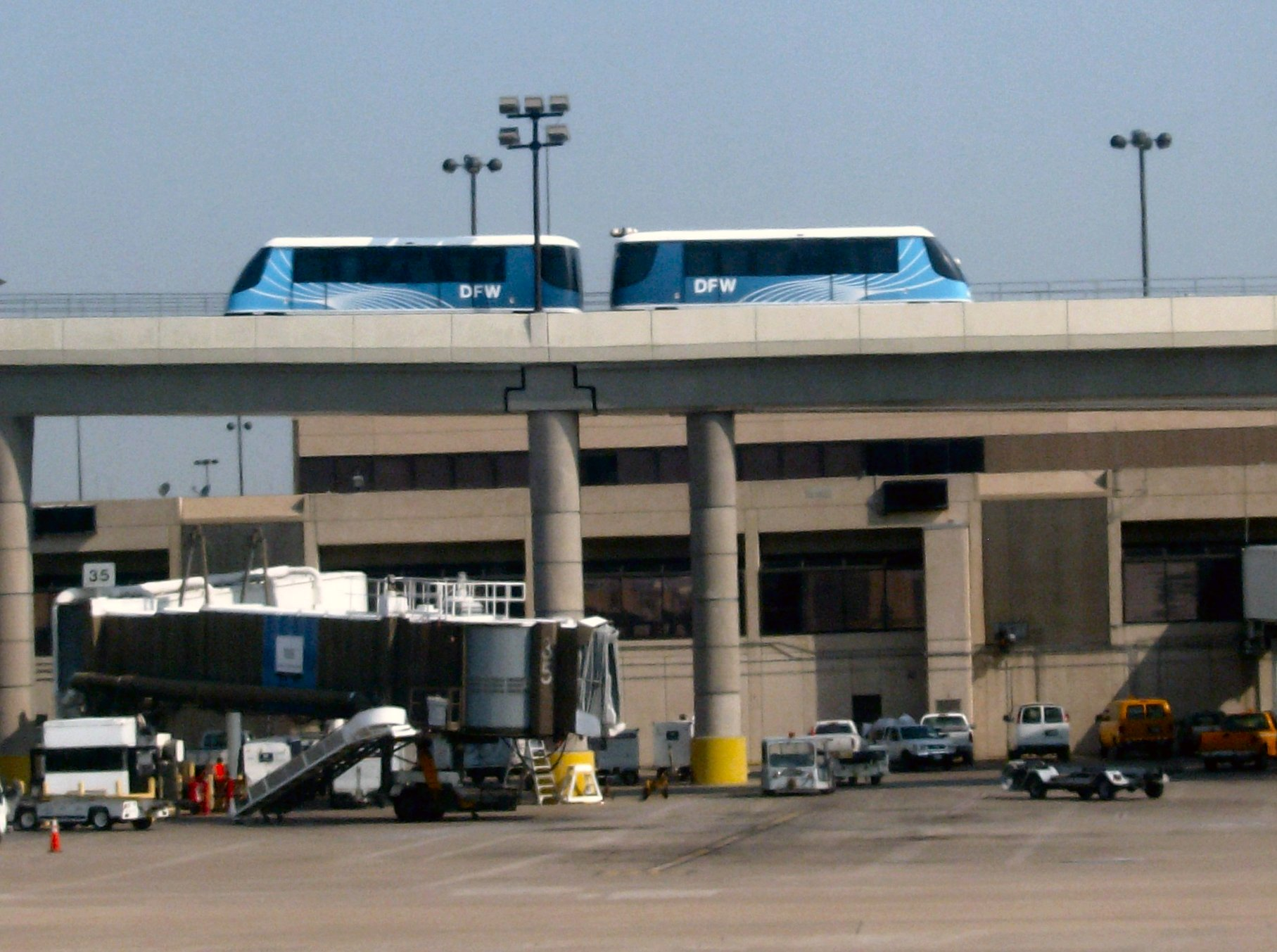 skylink